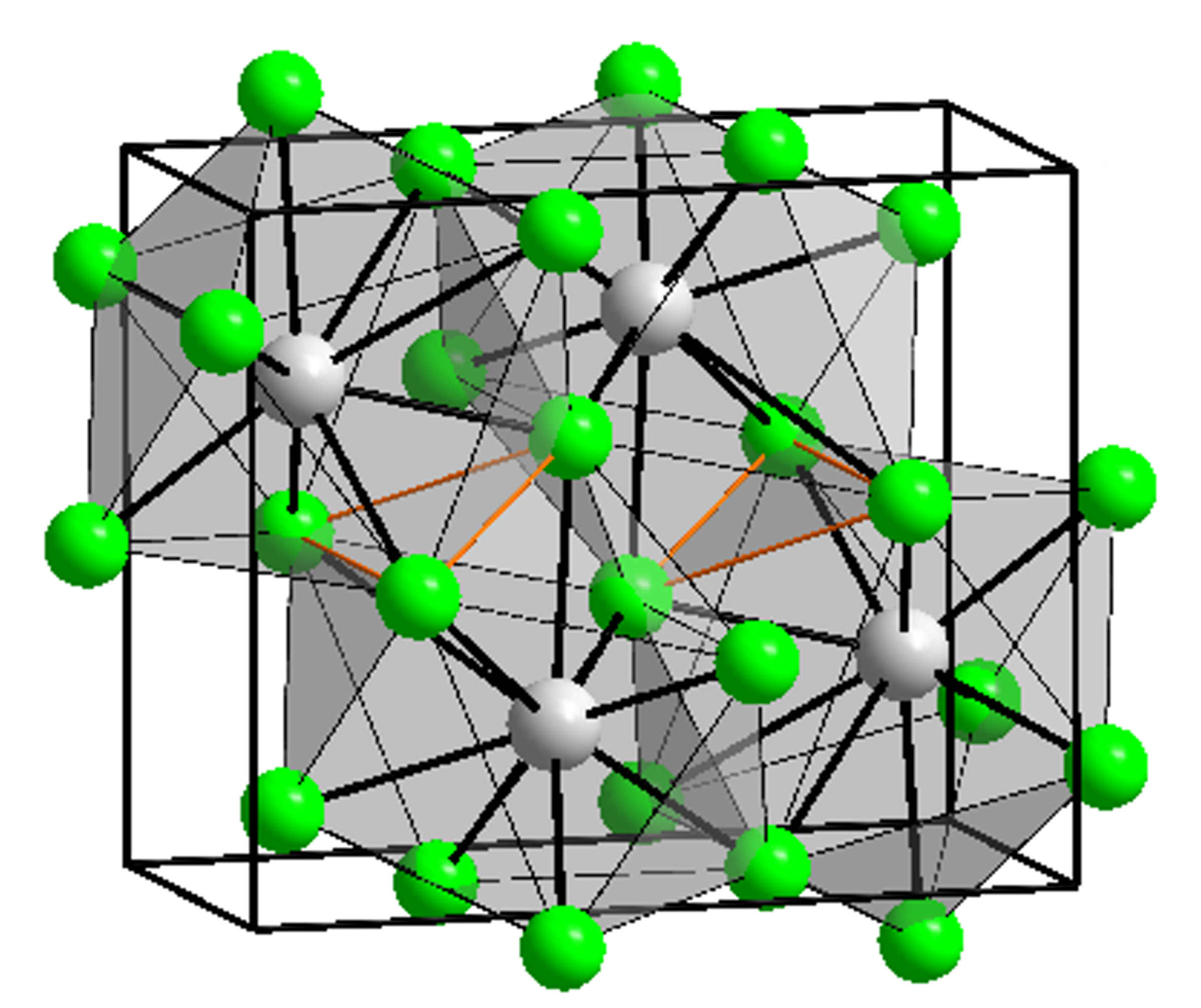 Crystal structure of lead(II) chloride